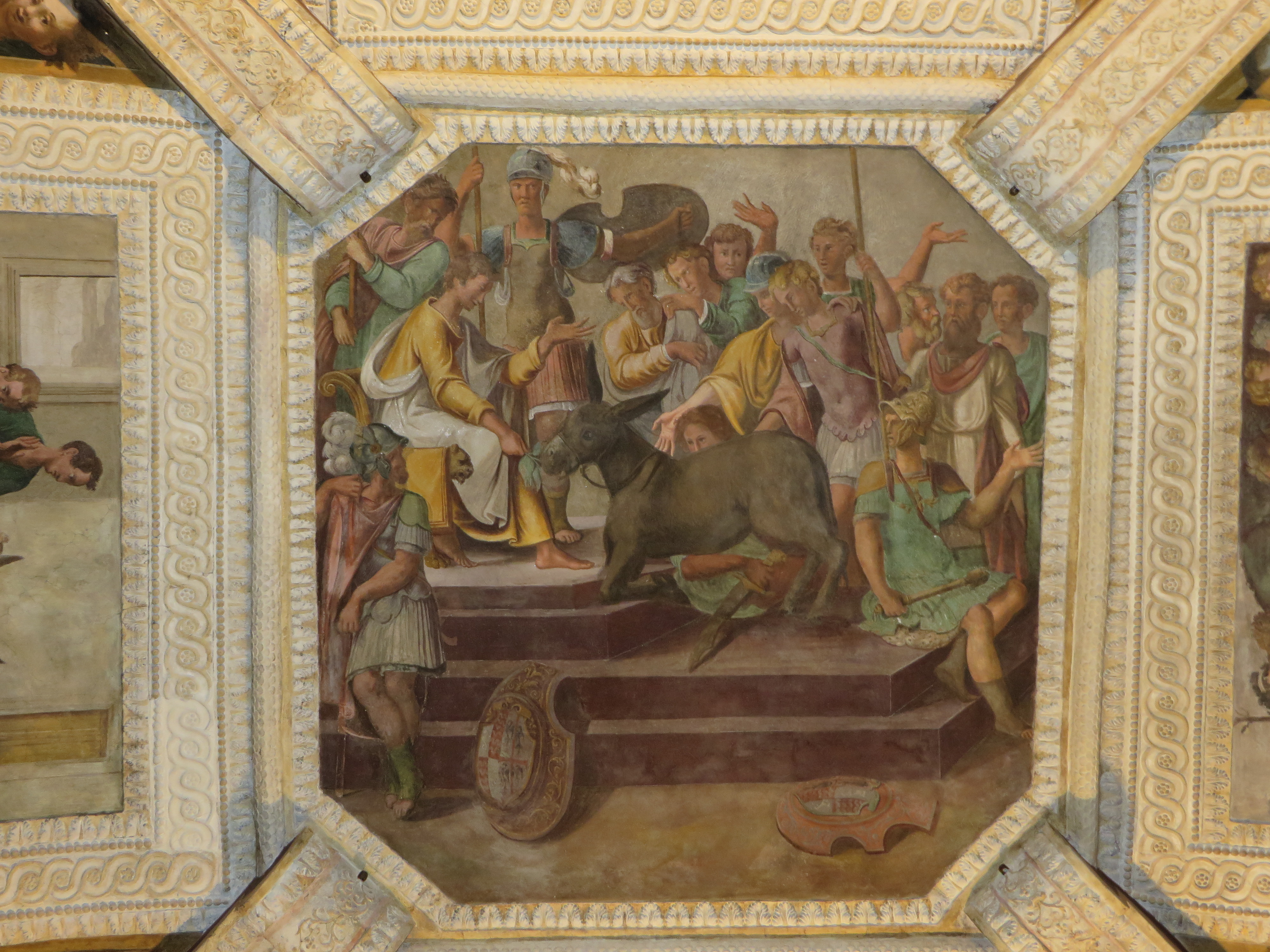 Rossi castle